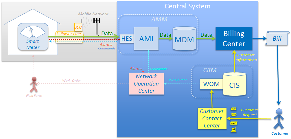 Smart Metering Infrastructure Smart Meter with Powerline connection via Data Concentrator (DCU), using a mobile network for communicating with the central system Central System of the smart meter network containing the following components: AMM (Advanced Meter Management) with HES (Head End System) interface adaptation for smart meters AMI (Advanced Metering Infrastructure for controling the smart meters MDM (Meter Data Management) for storing the measured values (MDM) NOC (Network Operation Center) for operating the smart meter network Field Force for performing activities on site CRM (Customer Relationship Management) with CIS (Customer Information System) for storing customer relatede data WOM (Work Order Management System) for excecuting customer related operations (WOM) CCC (Customer Contact Center) for handling customer requests and arranging access to the customer sites if necessary Billing Center for generating customer bills and invoices